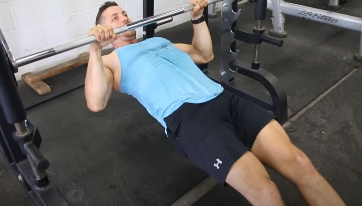 Inverted row or supine row